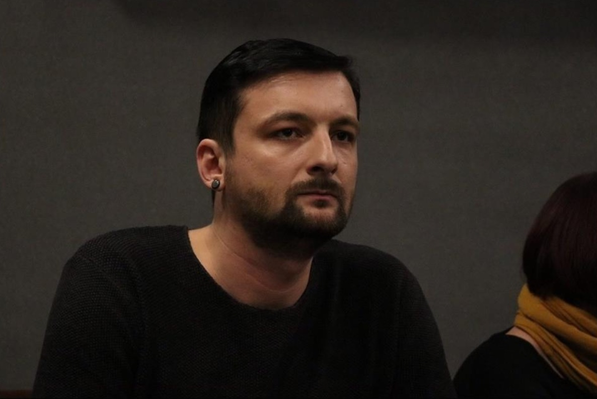 Edvin Kanka Ćudić Sarajevo